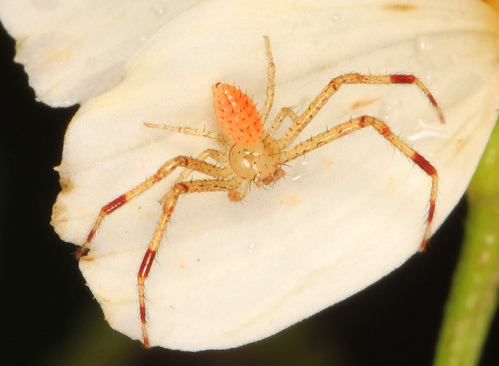 Crab Spider - Missumessus oblongus, Florida Panther National Wildlife Refuge, Immokalee, Florida